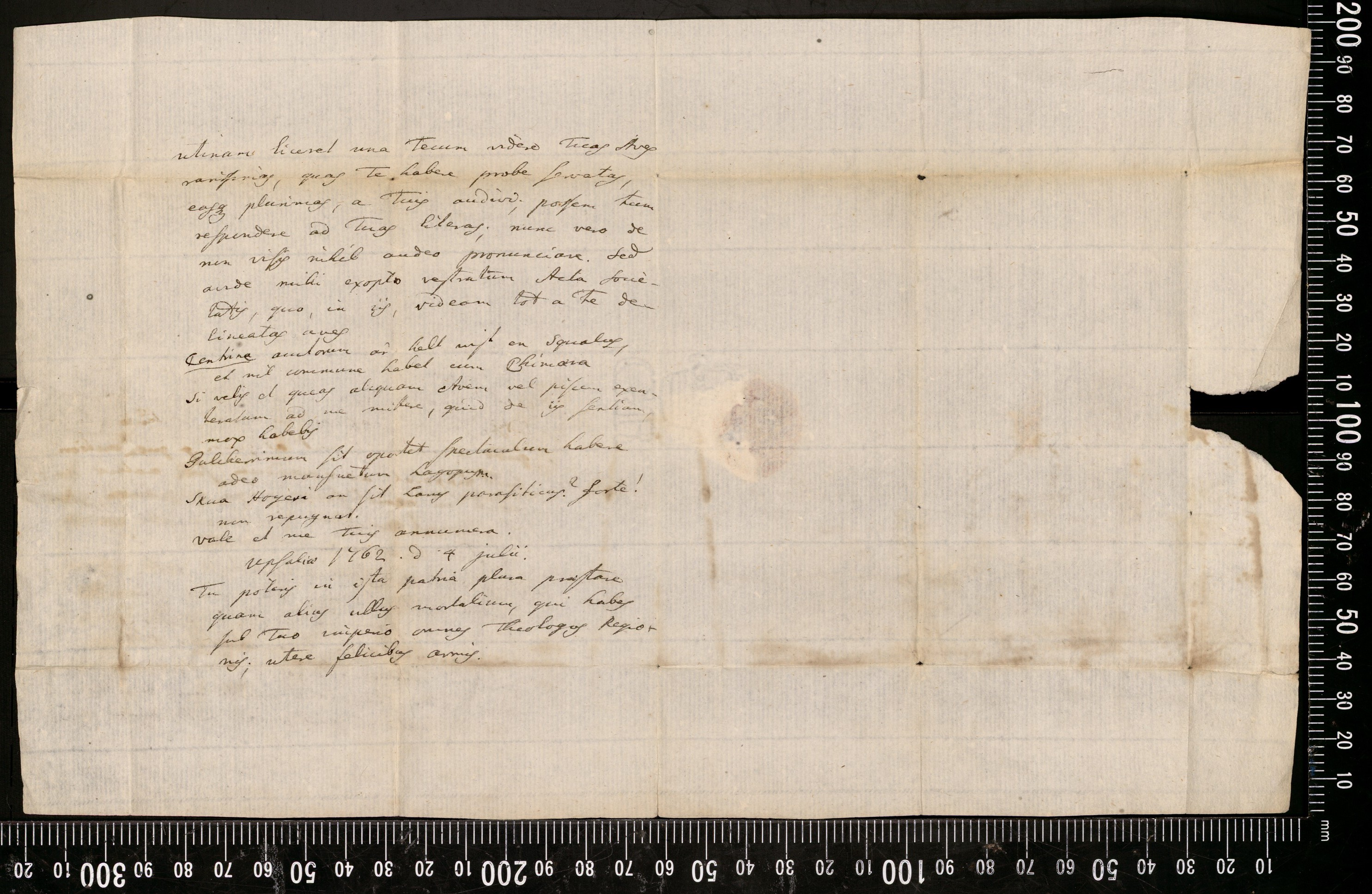 The Swedish botanist Carl von Linnés first letter to the bishop and natural scientist Johan Ernst Gunnerus in Trondheim